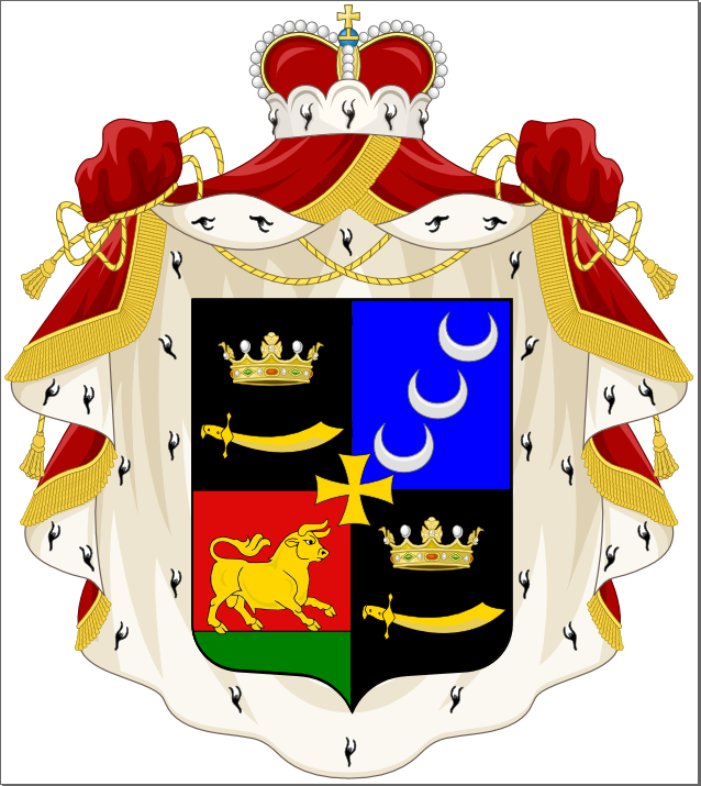 Coat of arms of the Nakashidze family